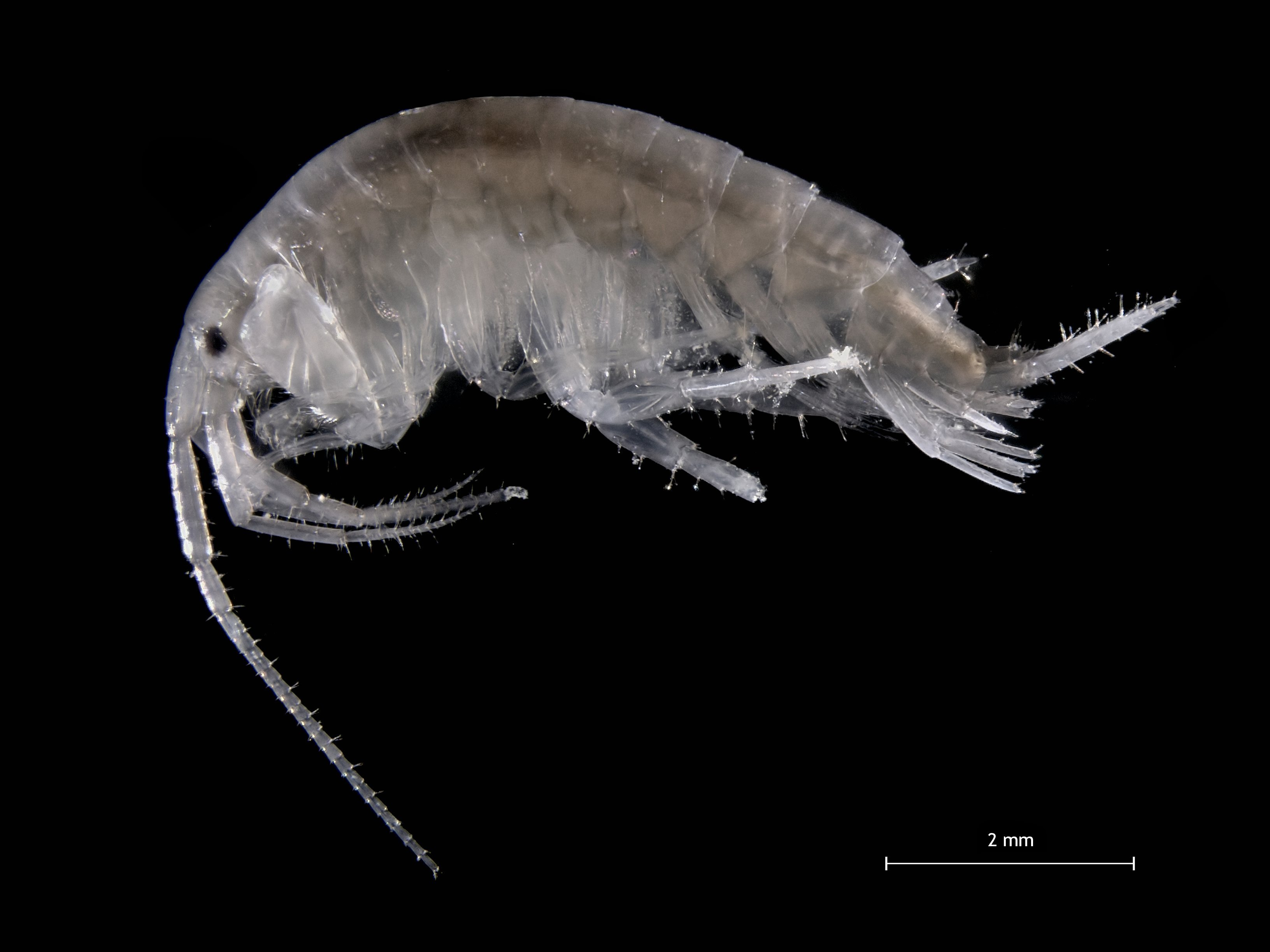 Benthic amphipod, taken with a Leica DFC 490 camera mounted on a Leica M205C binocular microscope. This is an intertidal species found among algae and hydroids. The male has a characteristically large second gnathopod. Collected in 2011 at the port of Zeebrugge, Belgium. Collected at 51°21′3.15″N 3°13′10.63″E / 51.350875°N 3.2196194°E.Length = ~7 mmFocus stacking of 27 pictures.